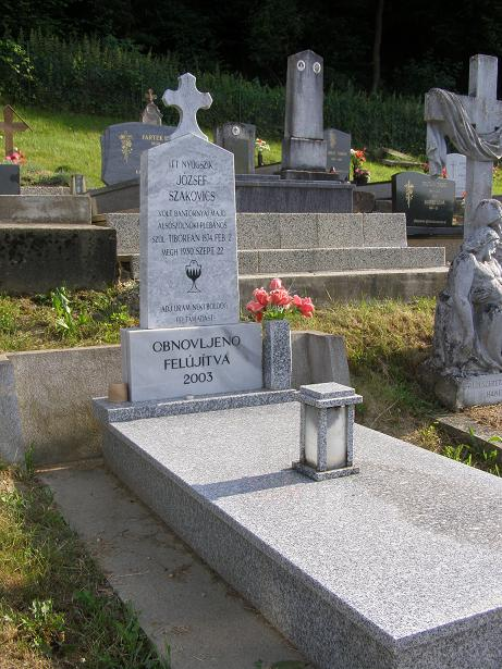 The tomb of József Szakovics slovenian priest and writer in Hungary (Cementery of Alsószölnök)